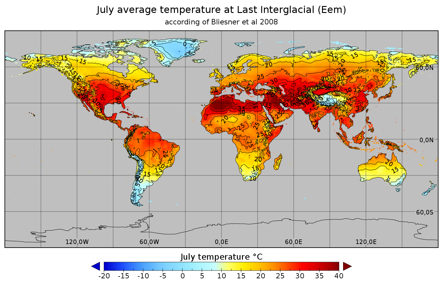 July average temperature at Eemian interglacial, ca 120-140 kya BP.